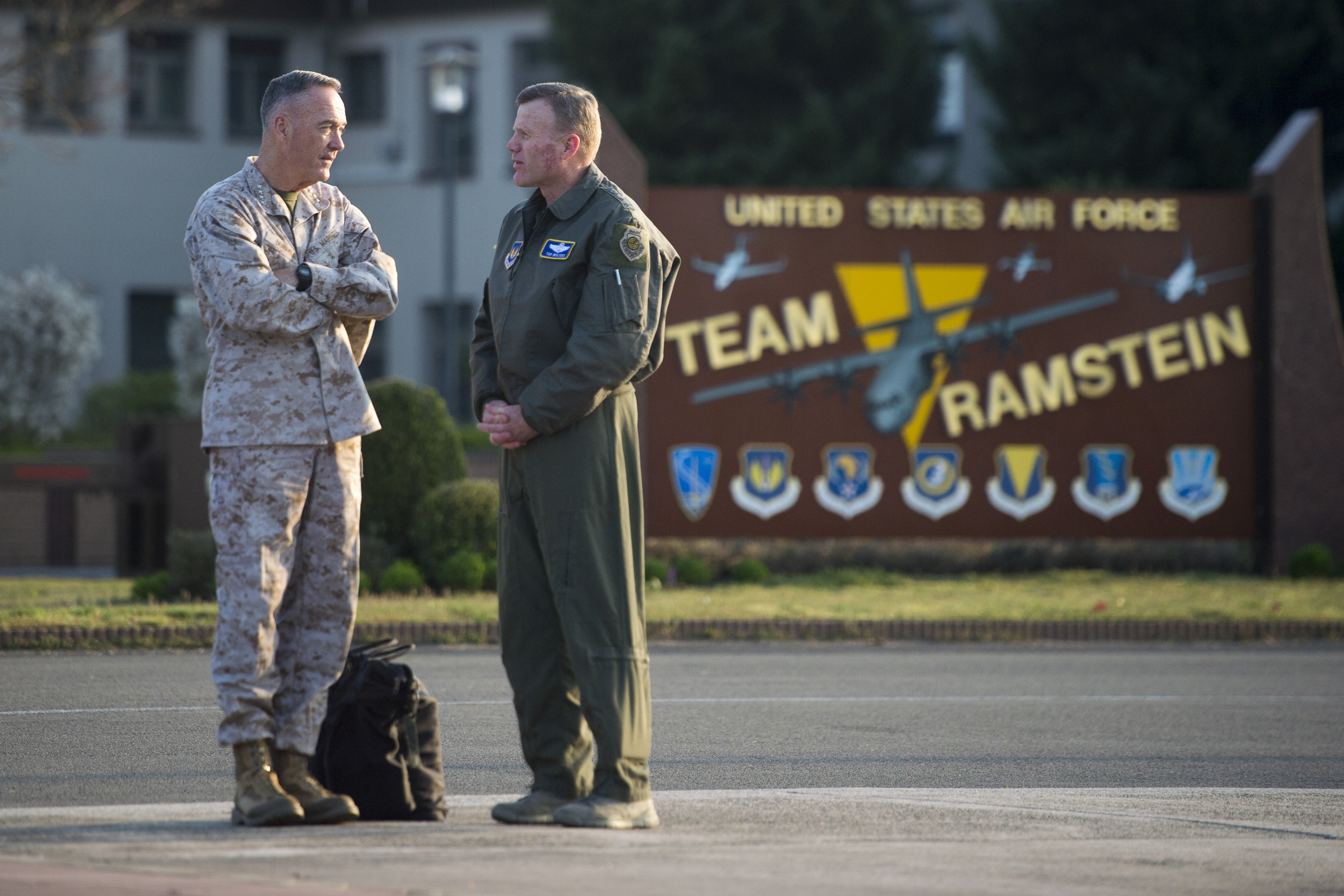 Marine Corps Gen. Joseph F. Dunford Jr., chairman of the Joint Chiefs of Staff, speaks with Air Force Gen. Tod Wolters, commander, U.S. Air Forces in Europe and Africa, before departing Ramstein Air Base, April 3, 2017. DoD Photo by Navy Petty Officer 2nd Class Dominique A. Pineiro